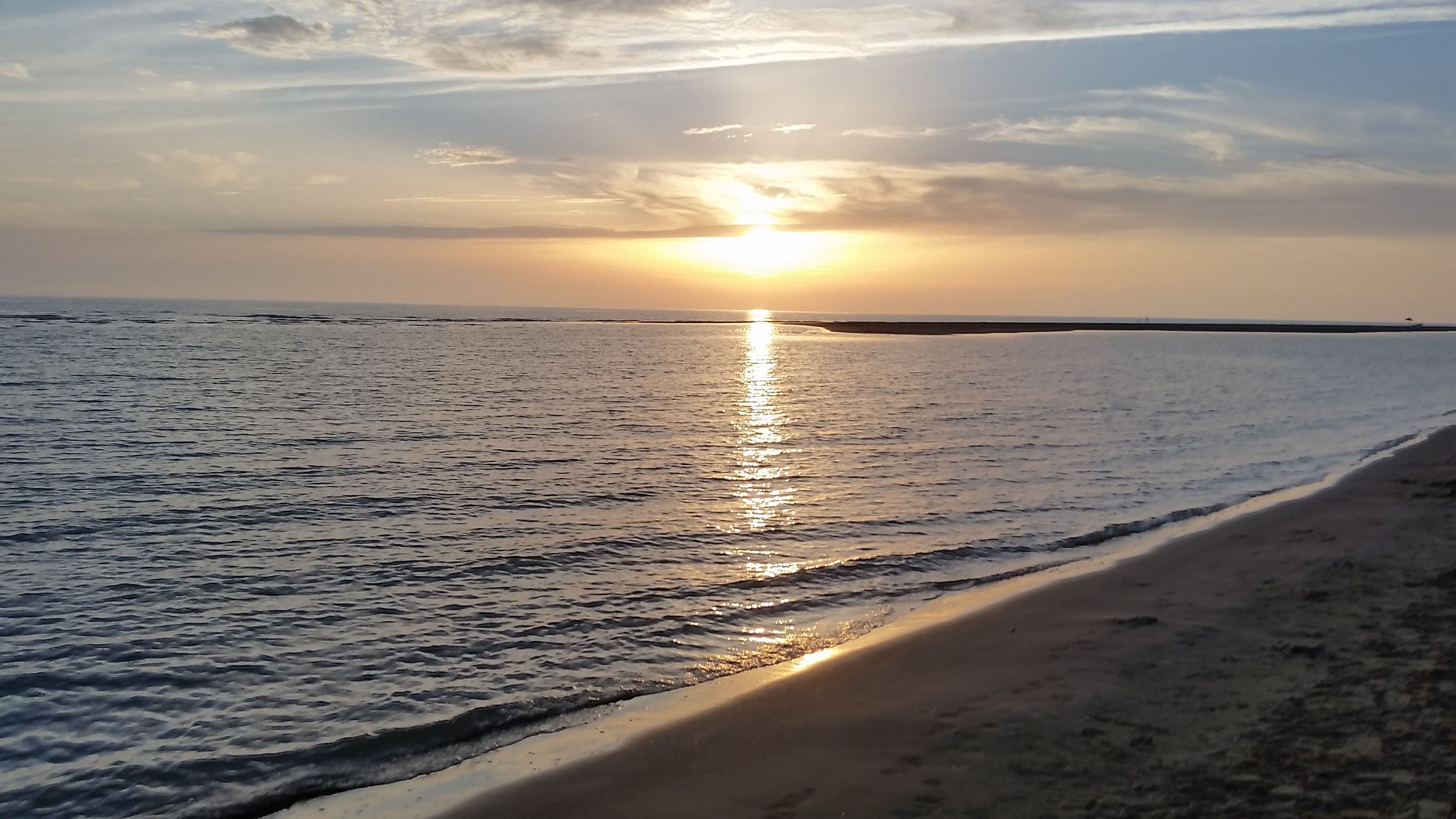 In an natural island.